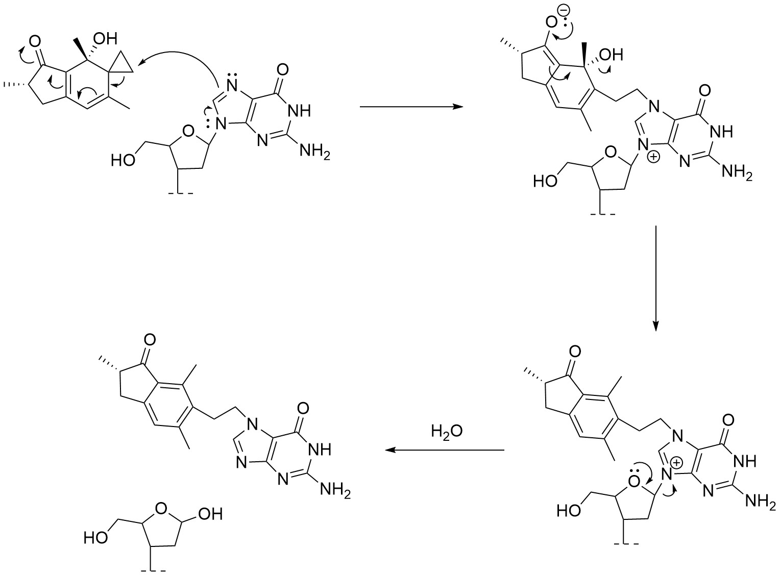 The mechanism of action of ptaquilodienone with deoxytelranucleotide